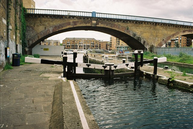 Stephenson's Viaduct Looking south to Limehouse Basin from Commercial Road Lock. Overhead is the viaduct of former Great Eastern Railway Fenchurch St to Blackwall, built 1836-40 by George & Robert Stephenson, now carrying the Docklands Light Railway.